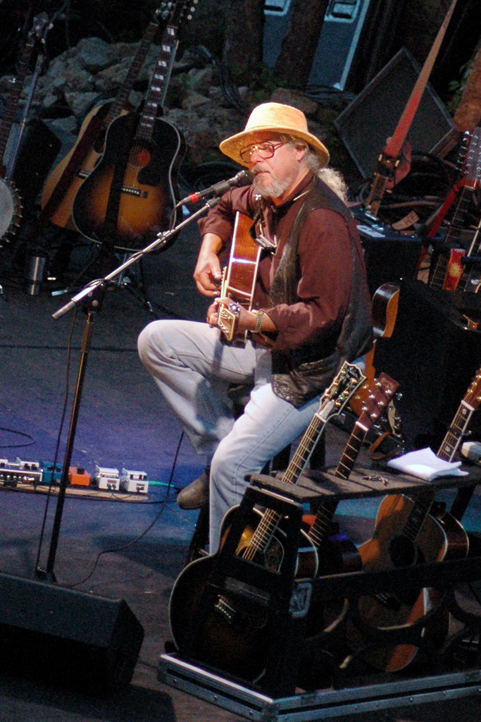 Arlo Guthrie performs at the Minnesota Zoo Amphitheatre July 19, 2005 during his Alice's Restaurant Massacre 40th Anniversary Tour.